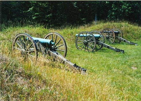 Battery XVI, Petersburg National Battlefield, Petersburg, Virginia, USA. 12-pounder howitzer (foreground), 12-pounder James rifle (middle), 3-inch Ordnance rifle (background).